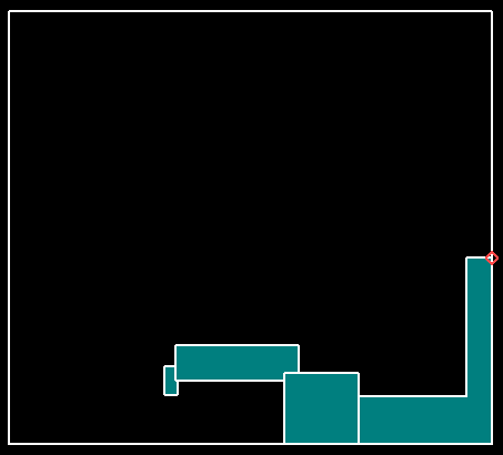 Image showing a possible screen of Qix, where the player (circle on the right) has filled a portion of the screen. The "Qix" itself is not present, nor is the GUI or other enemies. This image has been manually created based on the style of Qix.